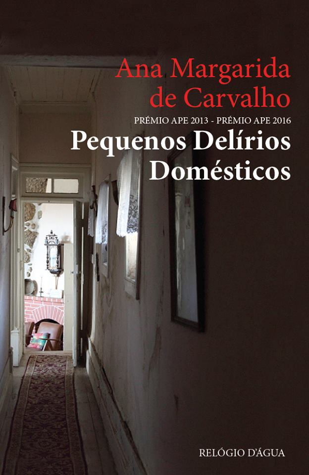 Livro de Contos de Ana Margarida de Carvalho, Vencedor do Grande Prémio de Conto da Associação Portuguesa de Escritores